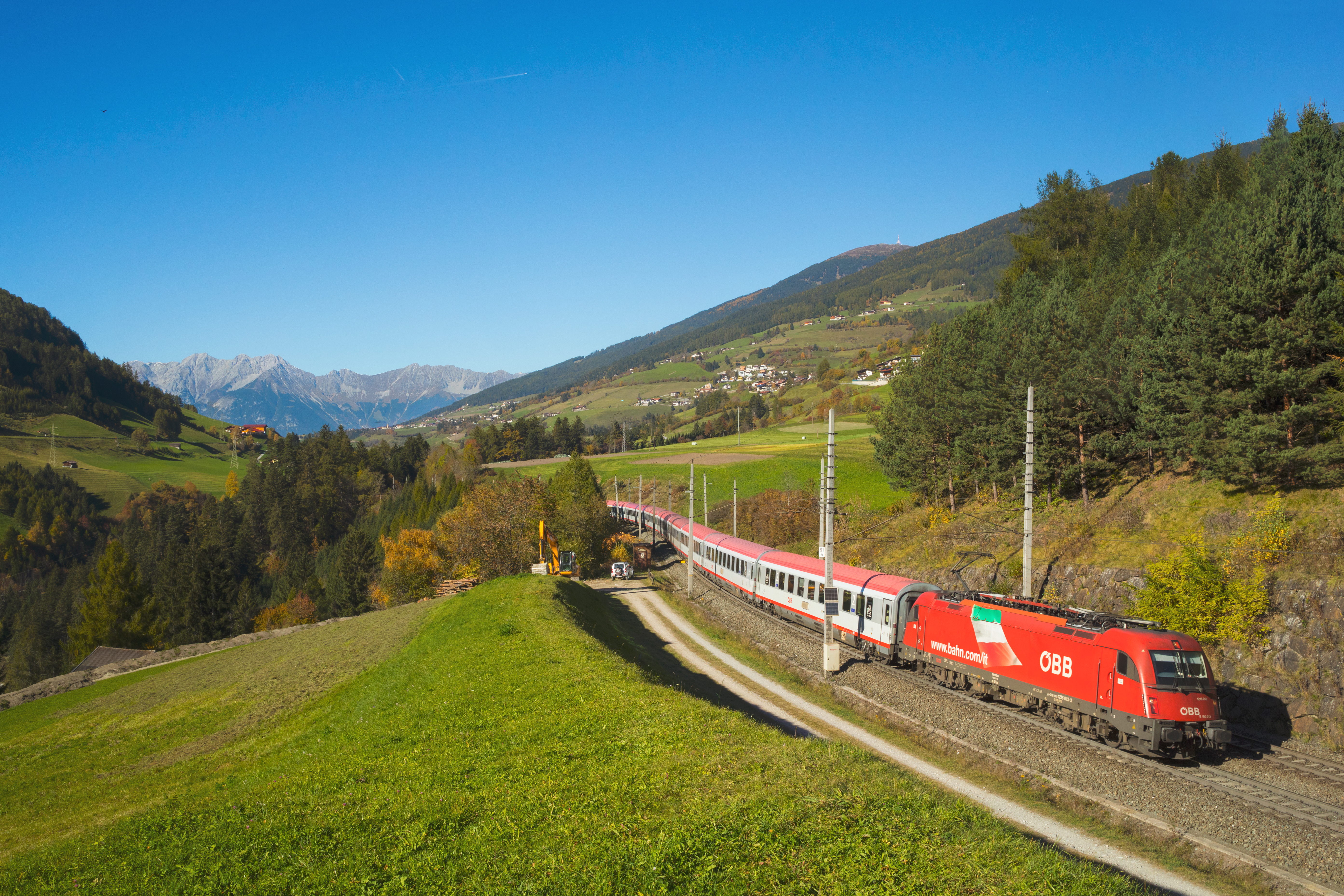 A Eurocity train near Matrei am Brenner